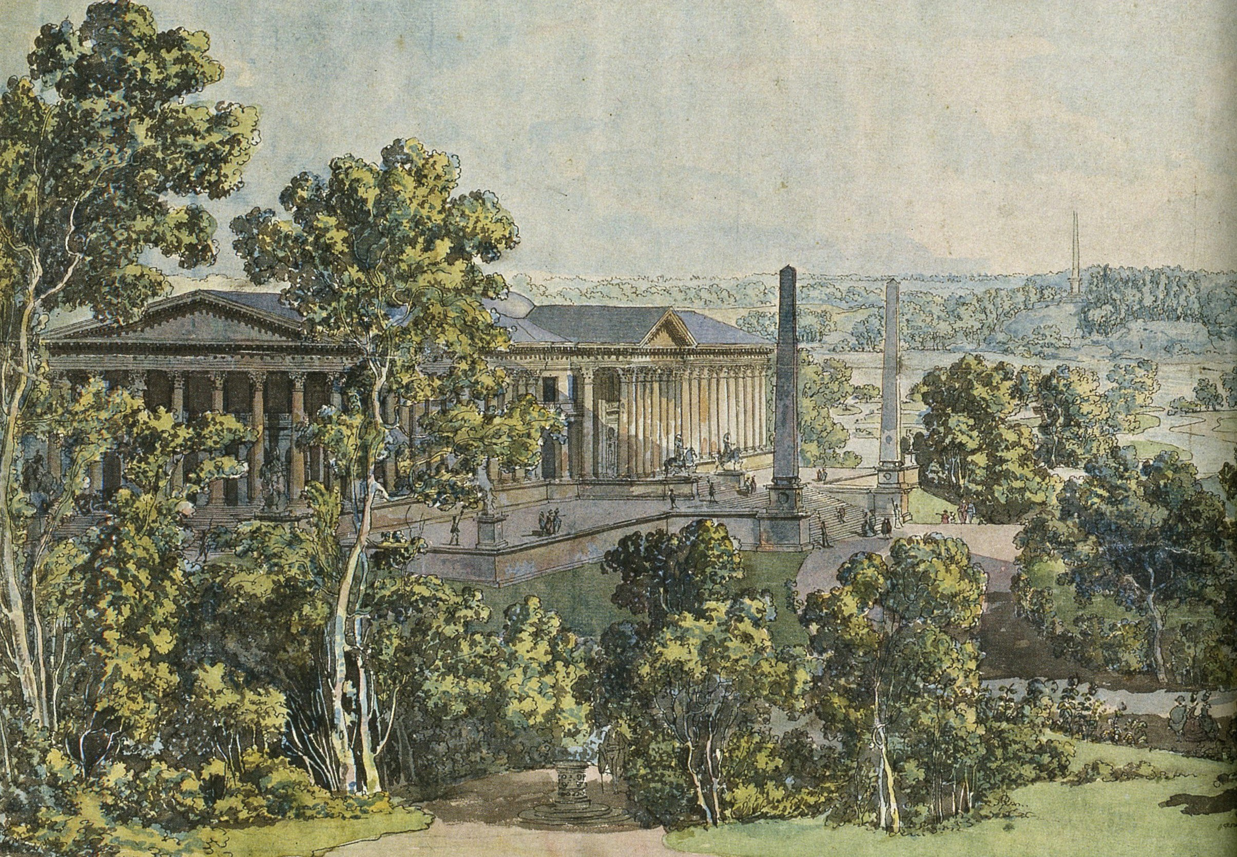 Haga north of Stockholm and the large castle planned in the 1790s. This is only appr. half of the drawing.